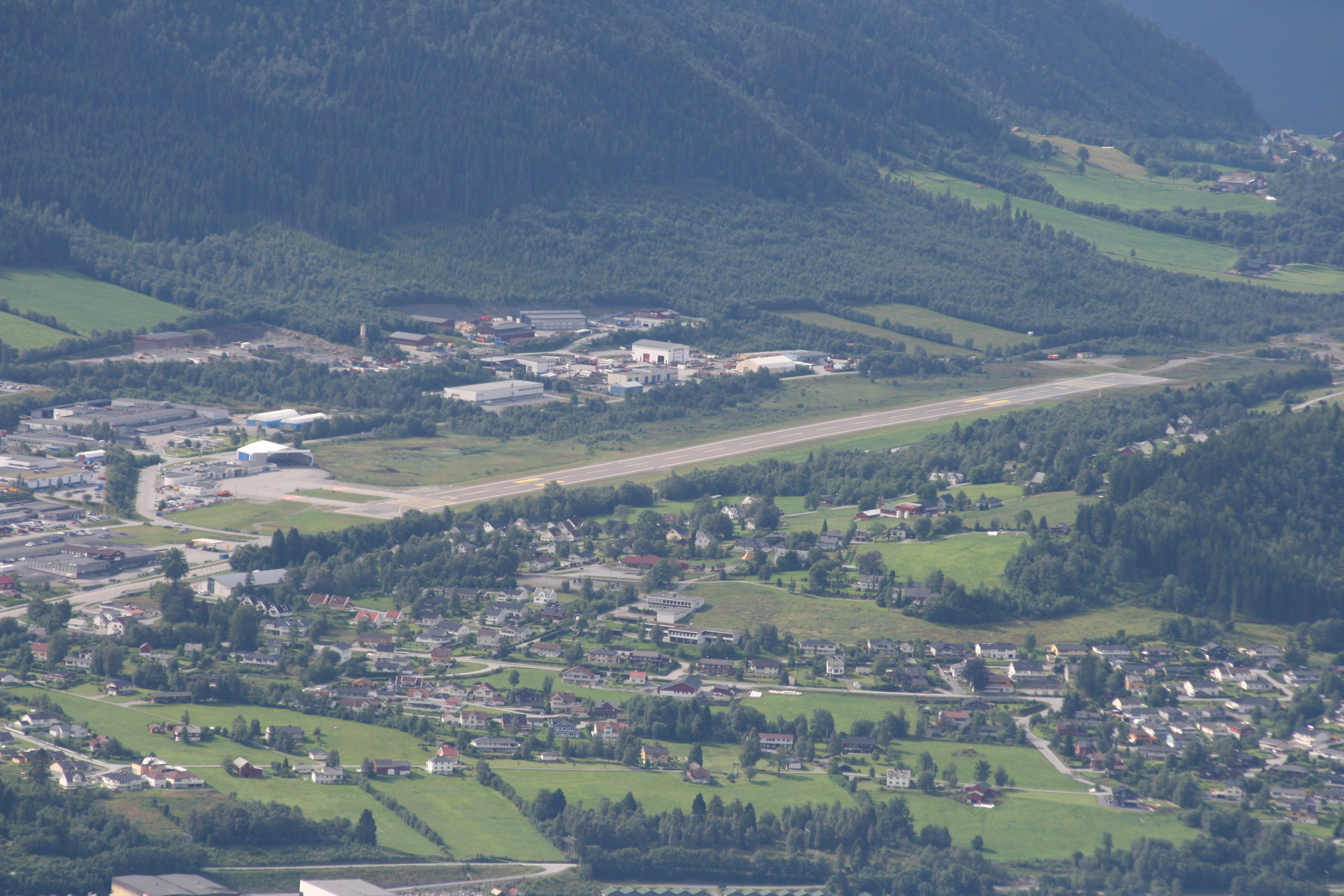 Ørsta Volda airport, Hovden august 2010